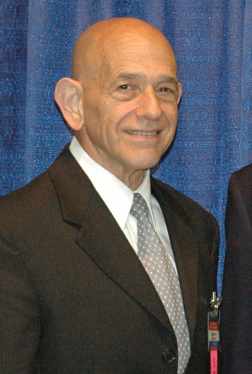 Parker v. D.C. attorney Bob Levy.